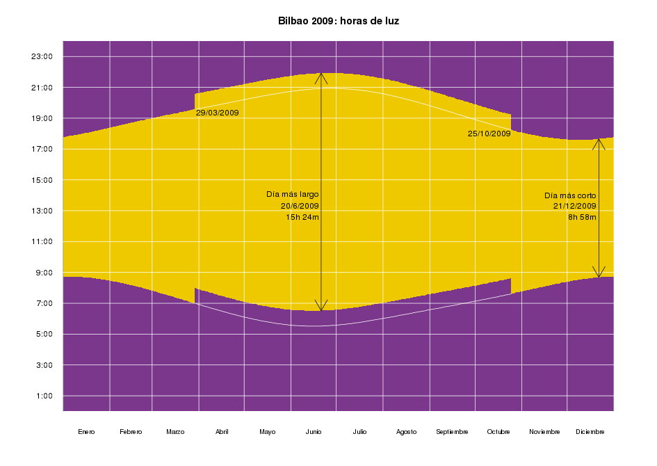 The chart plots the times of sunrise and sunset (with DST adjustment as separate lines) in Bilbao, Spain for 2009.